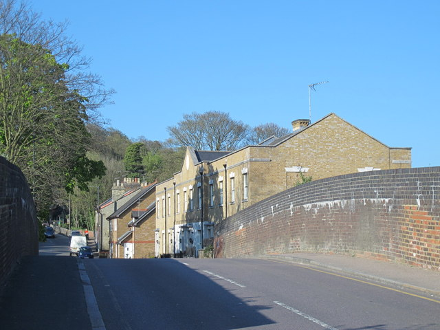 Bridge in Port Hill, SG14